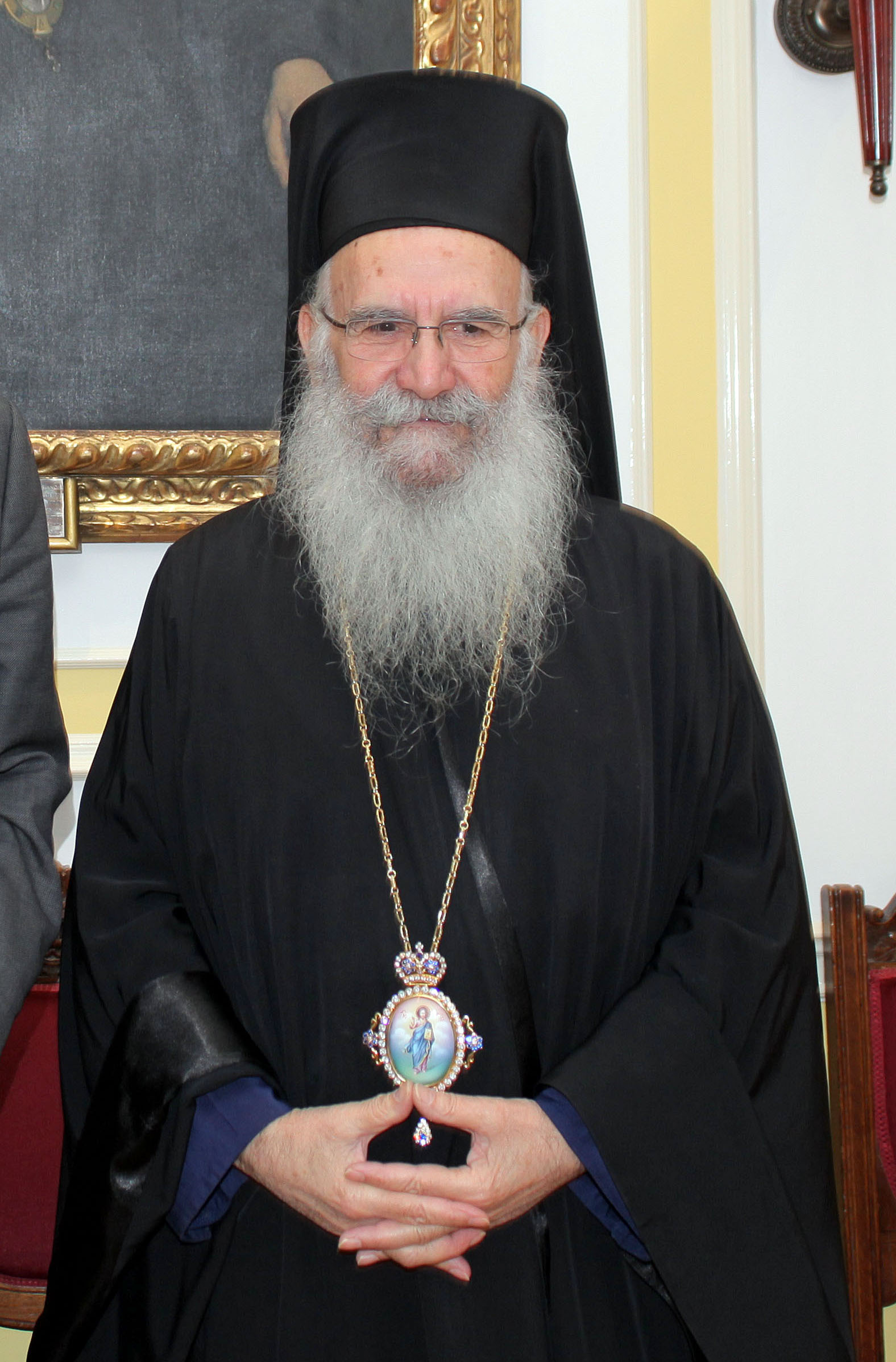 Visit of Greek Foreign Minister Mr. D. Droutsas’ to the UK (15-17 February), in meetings with Foreign Secretary Hague, Minister of State responsible for European issues and NATO Lidington, opposition representatives and Archbishop Gregorios of Thyateira and Great Britain.